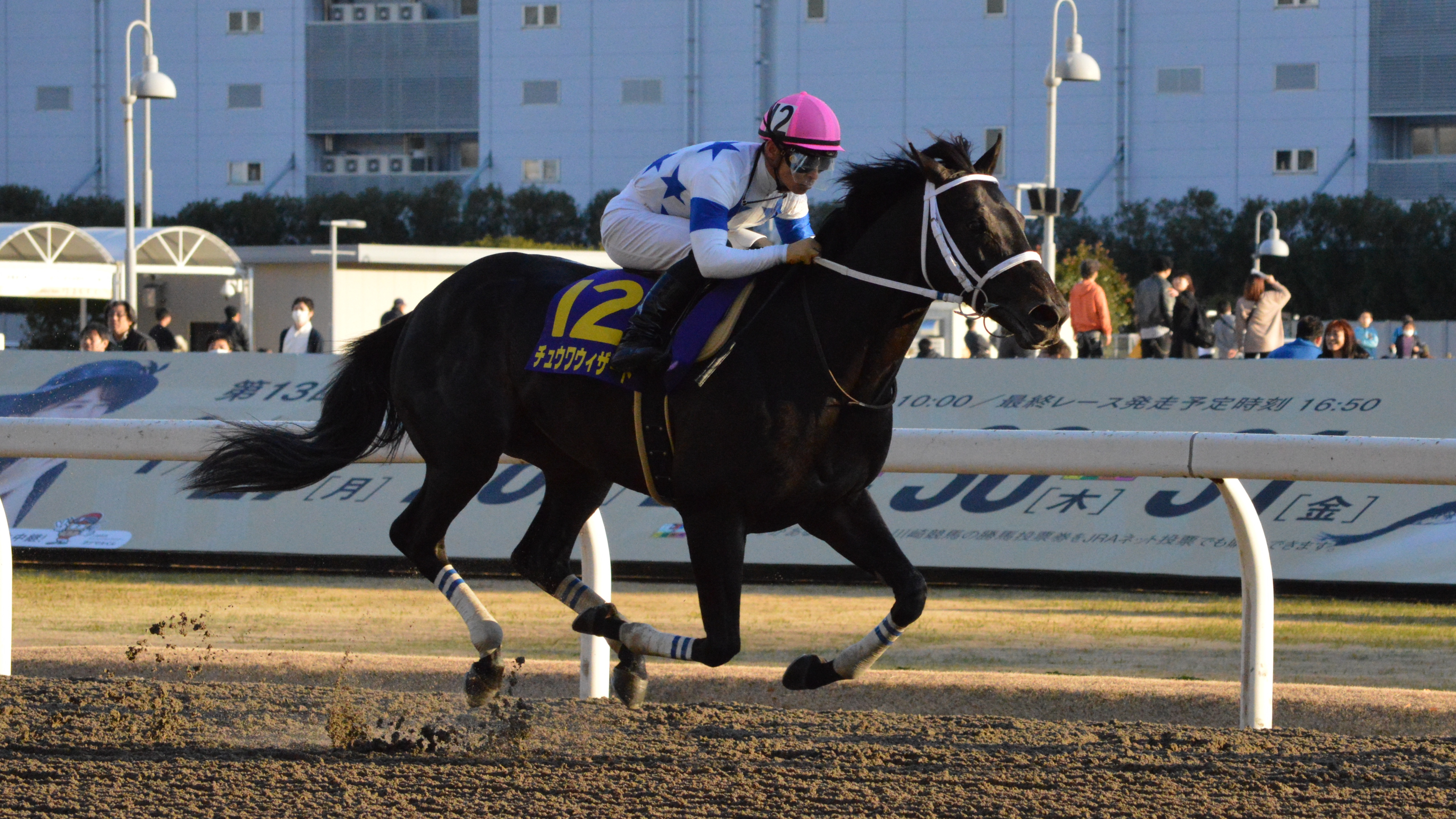 Japanese race horse Chuwa Wizard at Kawasaki racecourse. Kawasaki (JPN) 29 Jan 2020Kawasaki Kinen (Local Grade 1) (Dirt) (4yo+) 1m2 1/2f Sloppy RankHorse NameOddsAgeWgtJockeyTrainer1stChuwa Wizard (JPN)3/5FH59-0Yuga KawadaRyuji Okubo2nd Hikari Oso (JPN)35/1C48-11Seiji YamazakiHiroshi IwamotoOthers are omitted. (12 horses entered in a race.)